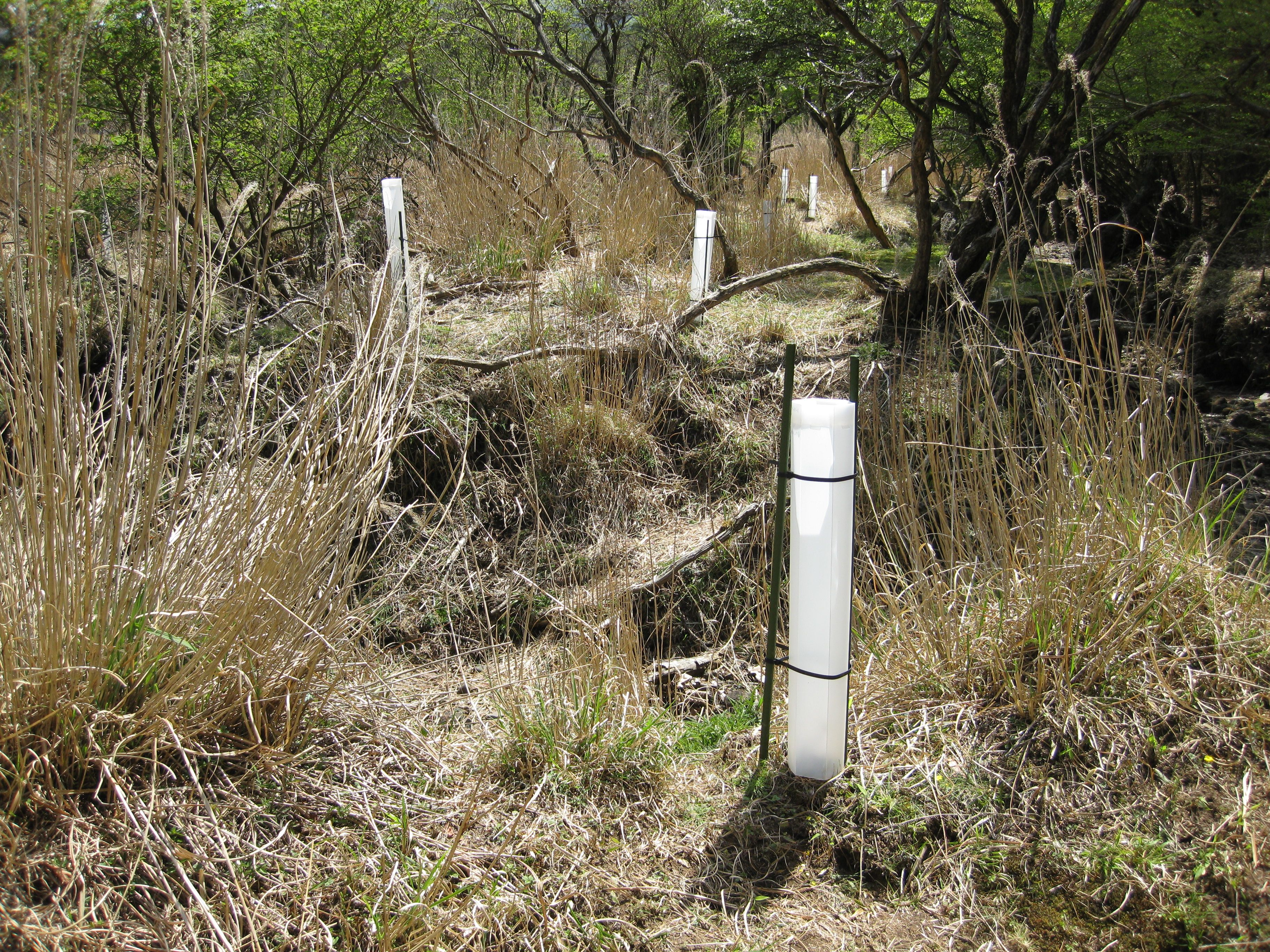 Protective Cover for Nokaidou in Ebino Plateau, Japan